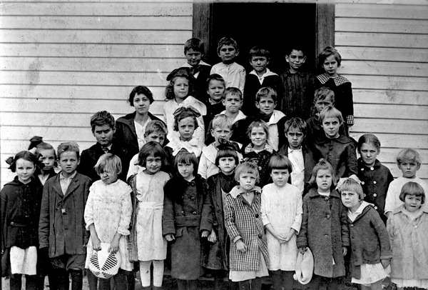 Local call number: N031689 Title: [Elementary school class portrait : Hilliardville, Florida] [picture] Publication info: 190-. Physical descrip: 1 photonegative : b&w ; 4 x 5 in. Series Title: (General collection)